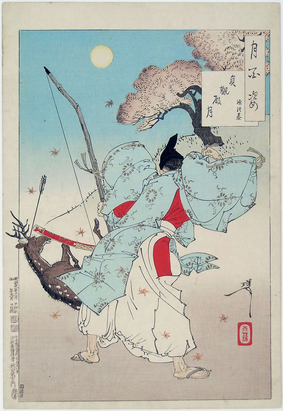 Title object: "Joganden no tsuki" (Joganden moon). Title series: "Tsuki hyaku sugata" (One Hundred Aspects of the Moon). Ukiyo-e by Tsukioka Yoshitoshi depicting Minamoto no Tsunemoto hunting a sika deer with a yumi (Japanese bow). Minamoto killed a deer in the palace grounds in autumn 932.